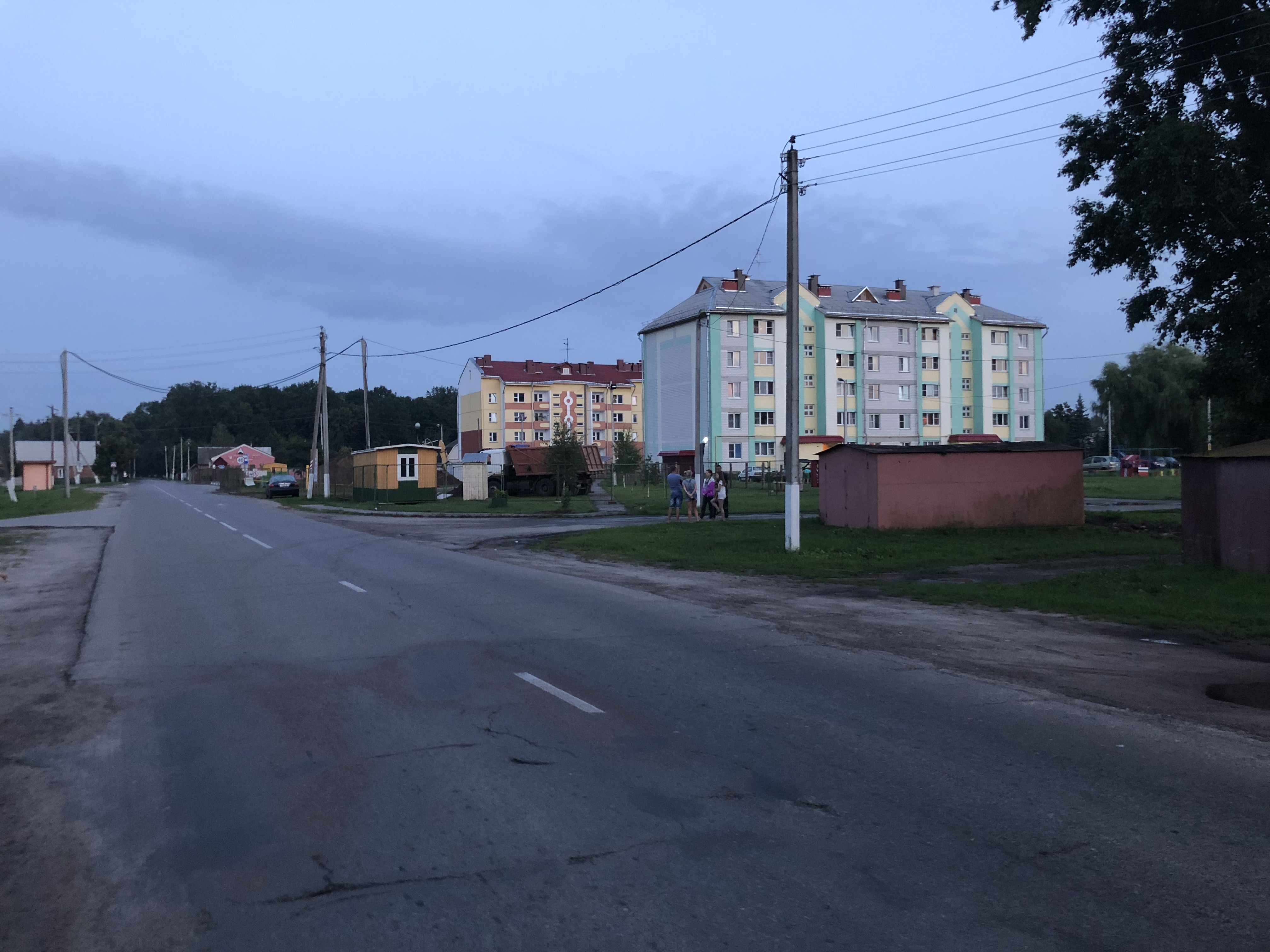 Korenevka, Gomel Region, 2018 july